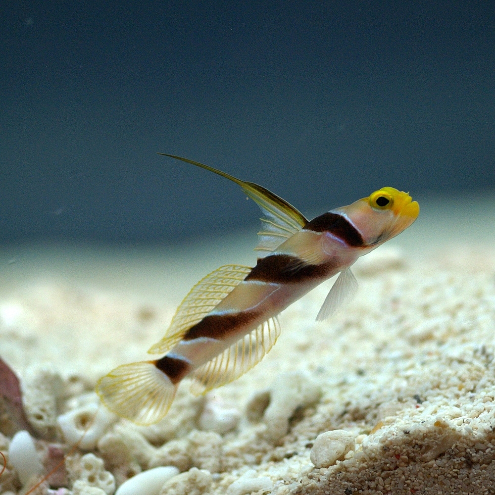 ヒレナガネジリンボウ Filament Finned Prawn Goby Species Stonogobiops nematodes Familia Gobiidae Location 城崎マリンワールド Copyright OpenCage